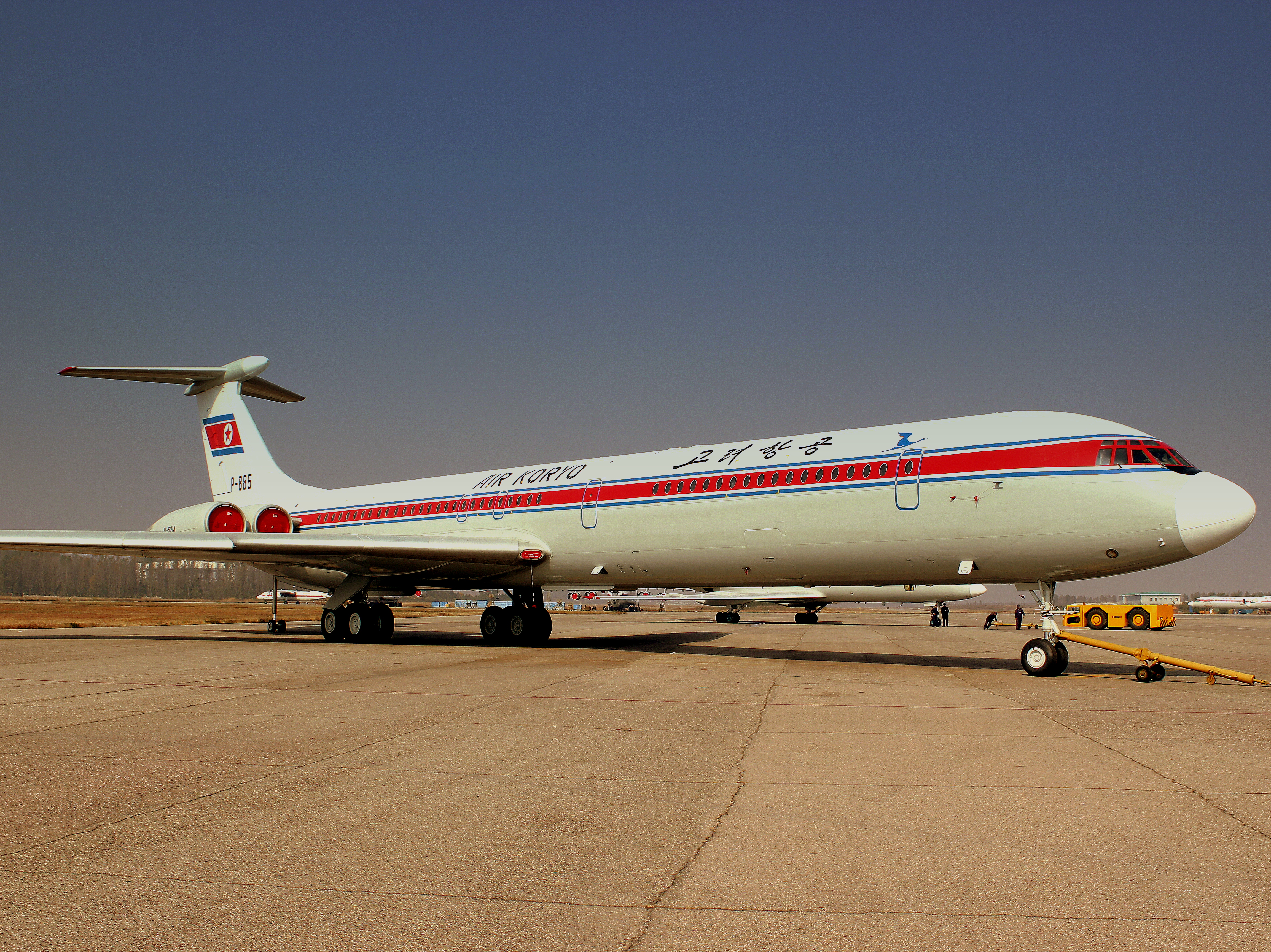 AIR KORYO IL62M P885 AT PYONGYANG SUNAN AIRPORT DPR KOREA OCT 2012